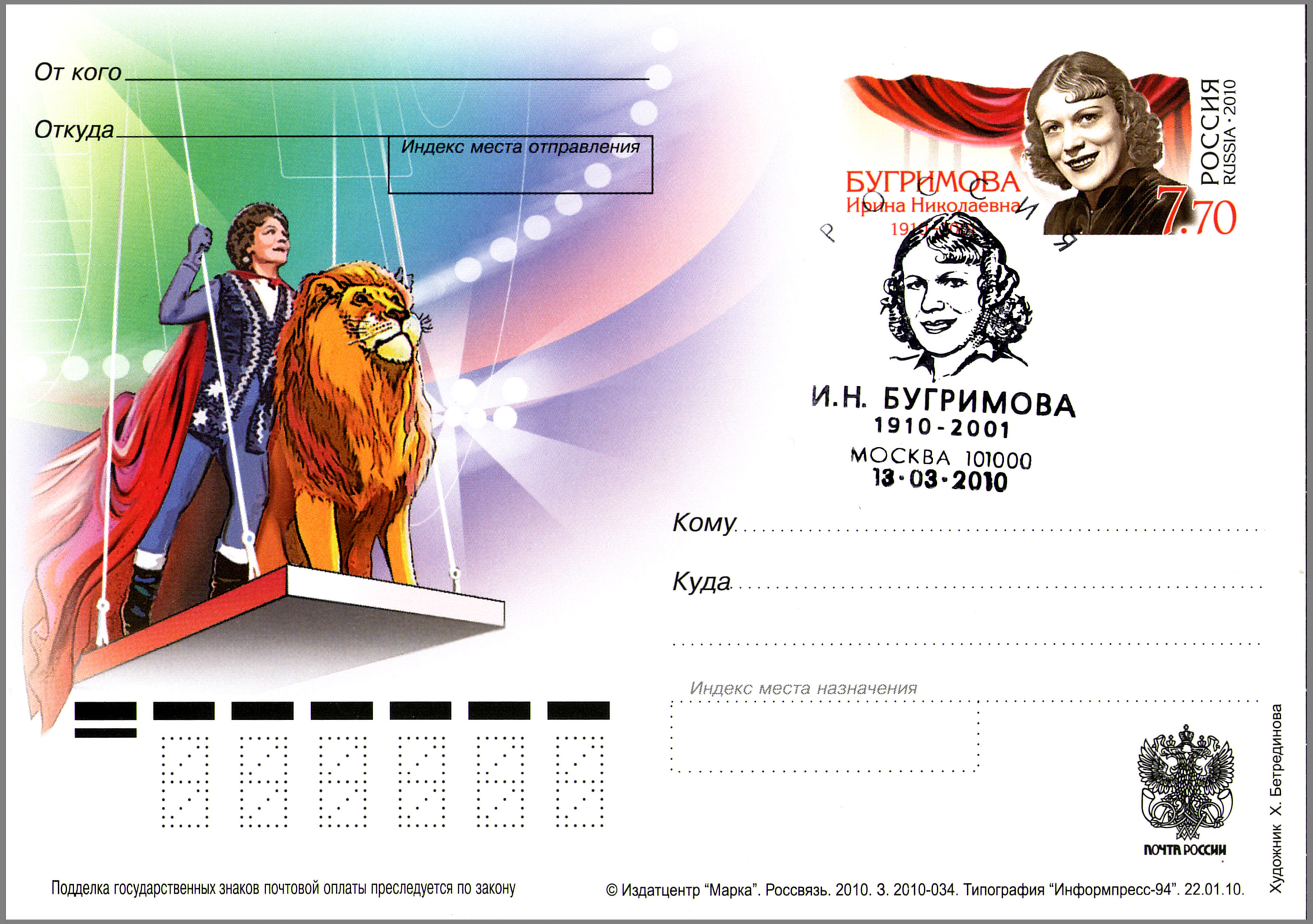 100th birth anniversary of Irina Bugrimova (1910—2001), a Soviet circus performer, a lion tamer. The postal stationery card with imprinted commemorative stamp, Russia, 12 March 2010, PTC Marka Catalogue No 208-окр/10, Michel No PSo198. Coated paper. Offset printing. Size of the postal card: 105×148 mm. Print run: 15,000. The commemorative stamp (7.70 ₽): the portrait of Irina Bugrimova. The illustration: Irina Bugrimova performs the show The Lion on Swings. Pictorial cancellation: Moscow, 13 March 2010, PTC Marka Catalogue No 21ш-2010.